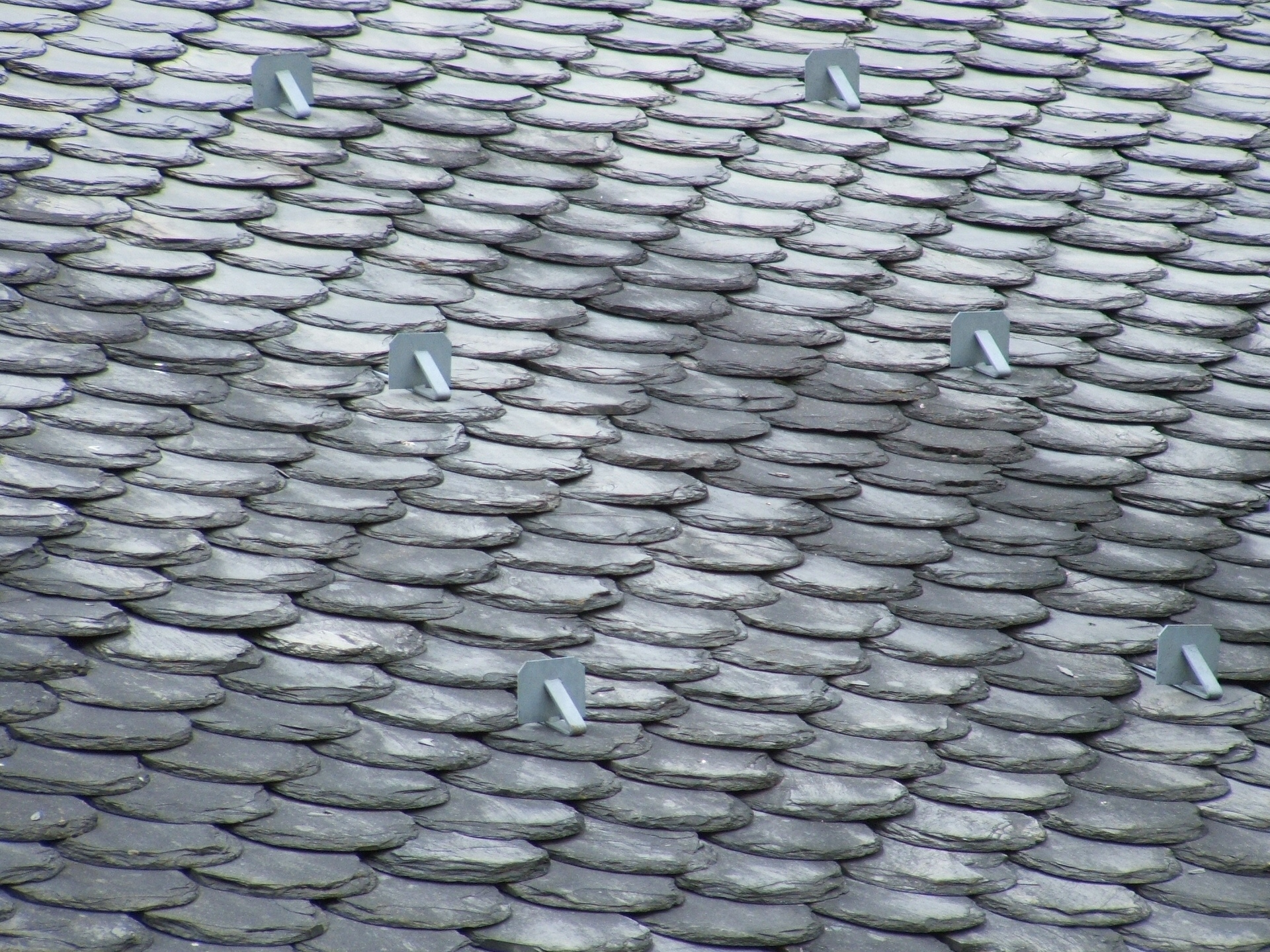 Slate roof